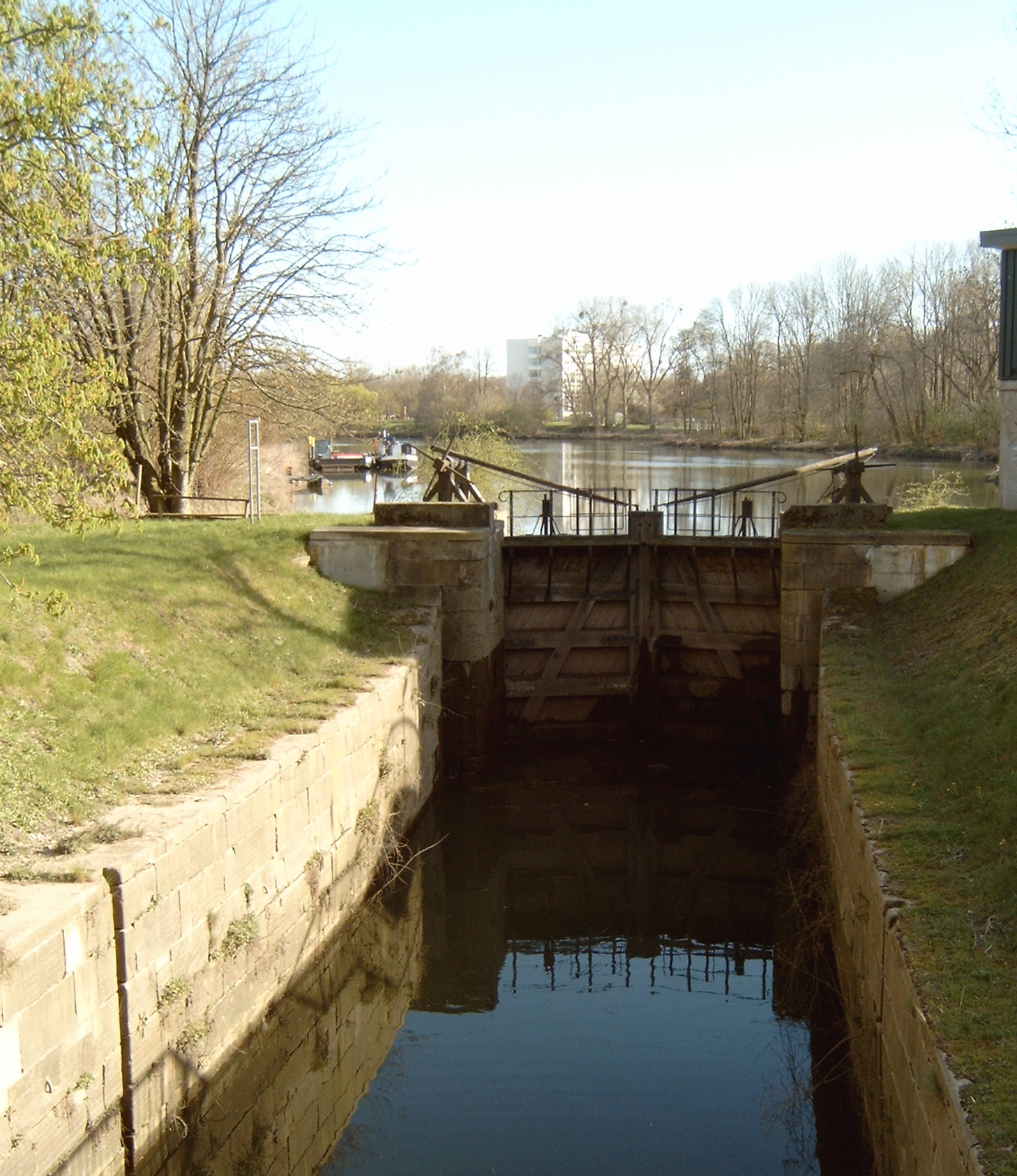 upper gate of the lock on the south end of the Ernst-August-Kanal in Hanover (Germany)